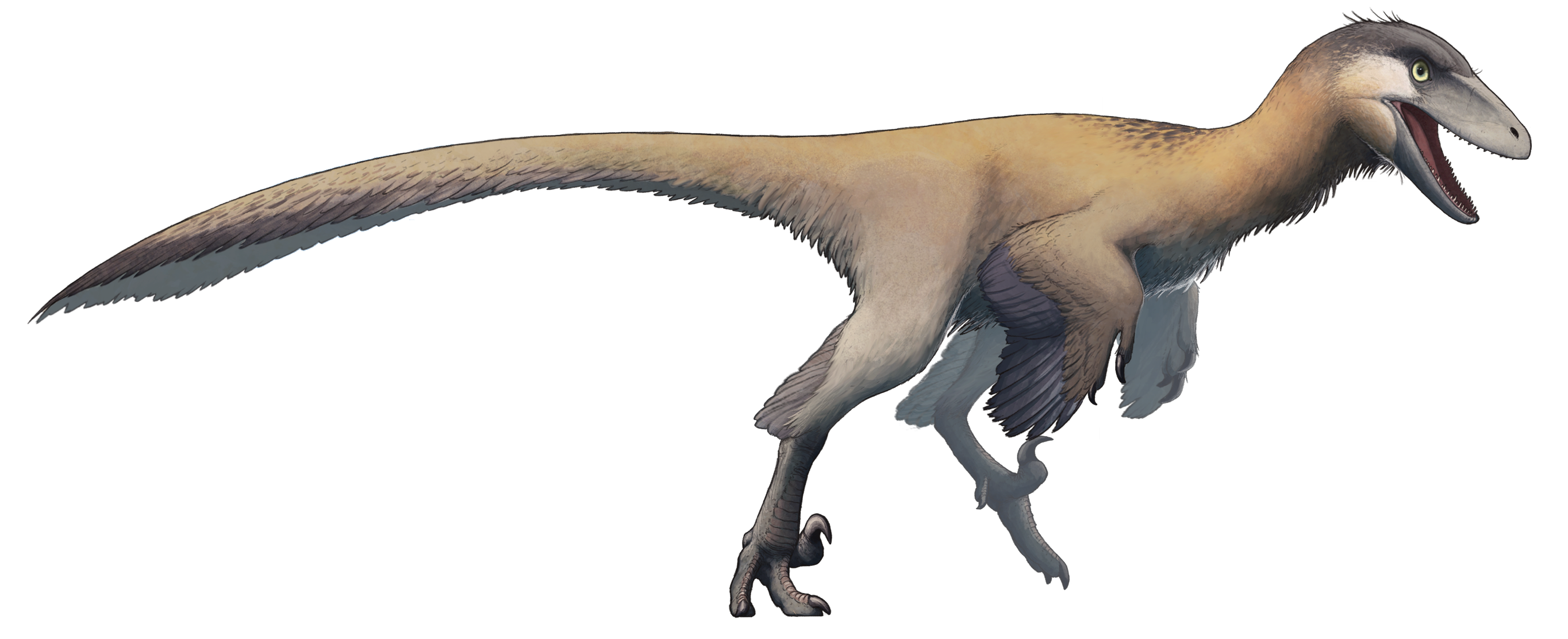 Life reconstruction of Latenivenatrix